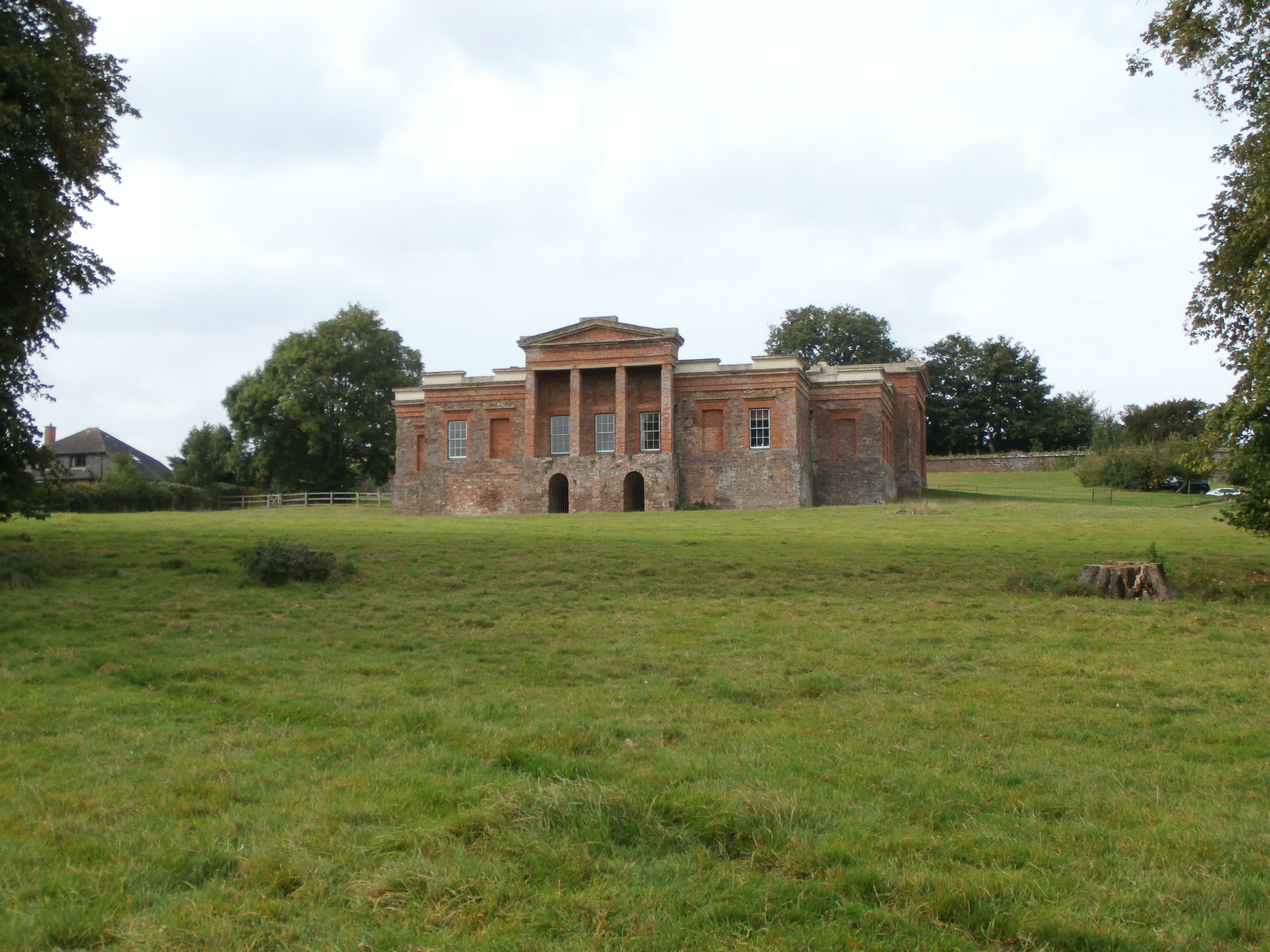 Stable Block, circa 1839, of the now demolished Mansion of Silverton Park in the parish of Silverton, Devon